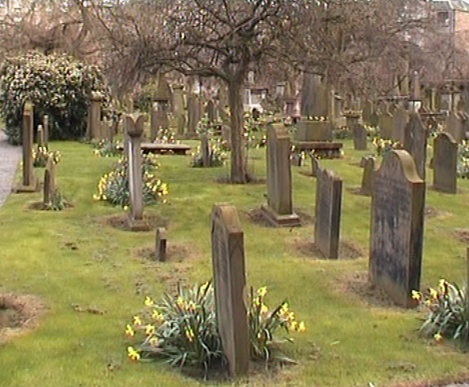 The Howff burial ground in Dundee